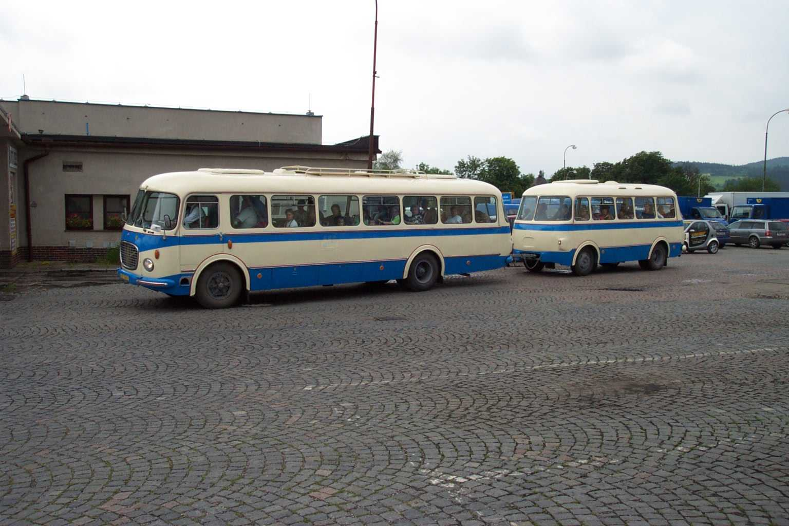 Škoda 706 RTO CAR bus (intercity version) with Jelcz P01E bus trailer in Beroun, Czech Republic. ČSAP Nymburk operator.